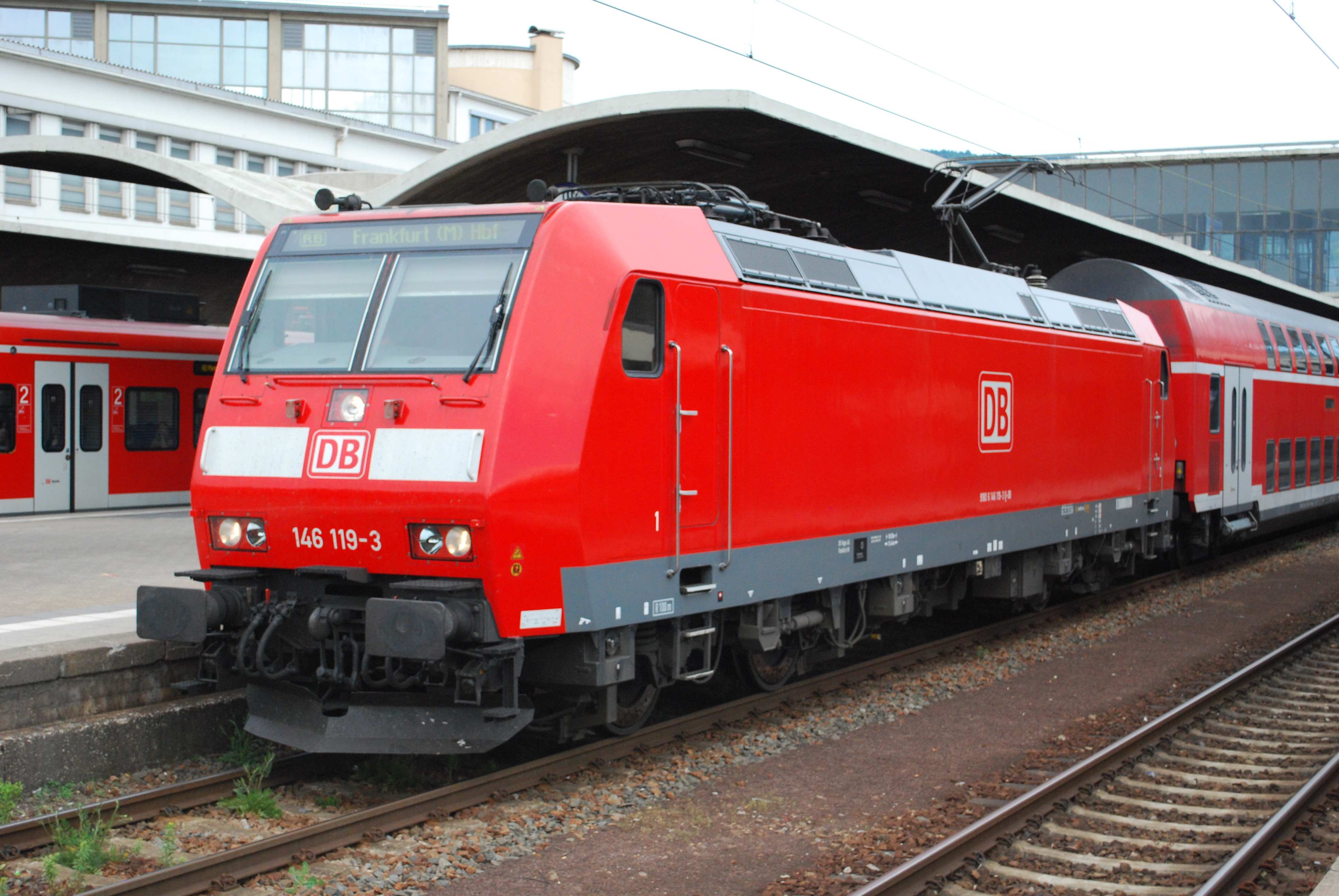 DB Adtranz Class 146.1 15k v ac 5,630 hp Bo-Bo No.146 119 at Heidelberg Hbf, 6/11, on a Frankfurt Hbf service. Adtranz built 80 Class 145's for DB Cargo and other freight operators in 1996-98, 30 Class 146.0's and 25 Class 146.1's (passenger push-pull) in 2001-02, and 400 Class 185 (15k v ac/25k v ac) for DB Cargo and others for international freight opeations 2008-09. Part of the "TRAXX" family.